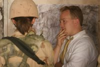 On set, directing his award-winning film Another Life